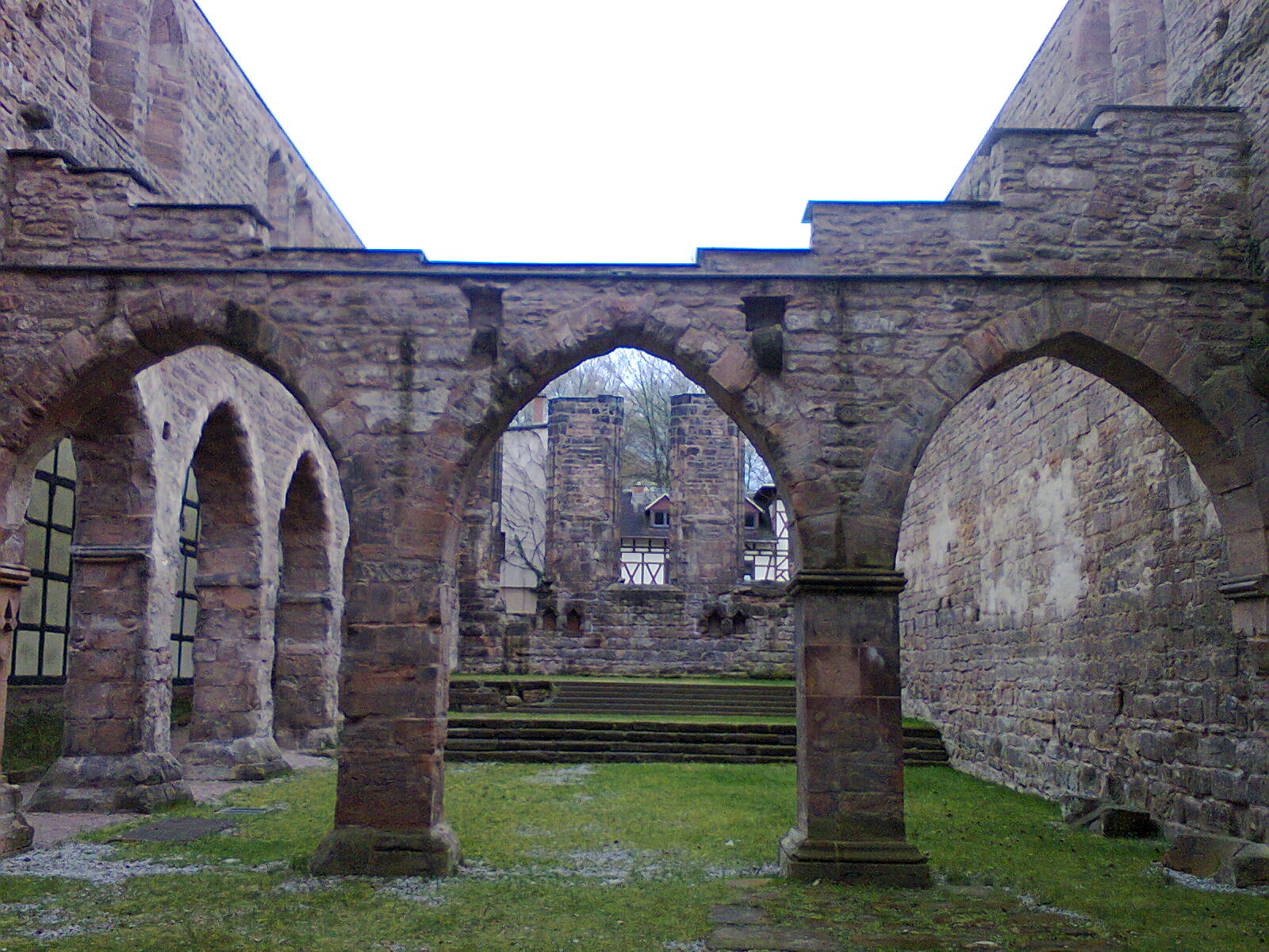 Kloster Stadtroda